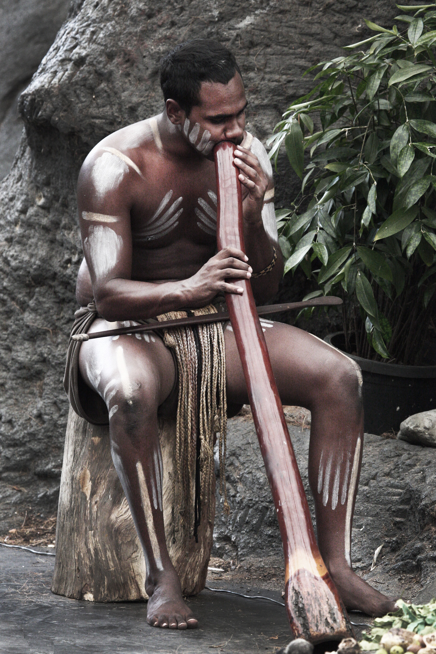 Playing the traditional aboriginal musical instrument, the didgeridoo - an amazing instrument ! To hear free samples go to